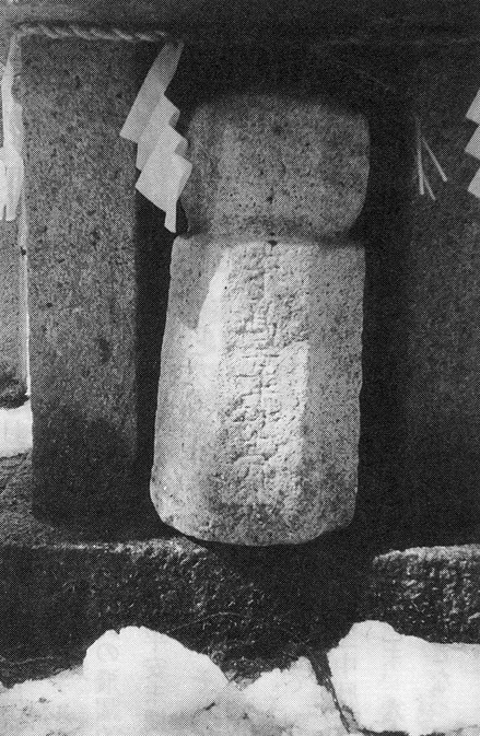 Tomb of Gwisil Jipsa in Kishitsu Shrine (Kishitsu-jinja, 鬼室神社) in Ono, Hino-chō, Gamō-gun, Shiga-ken, Japan.